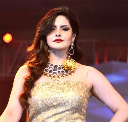 Zarine Khan at IBJA awards and fashion showcase